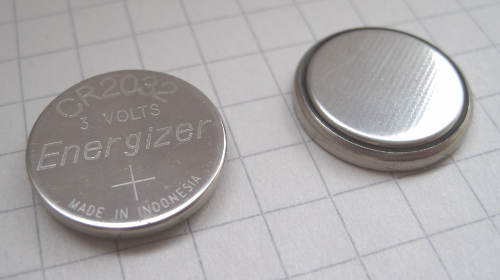 Two CR2032 lithium cells on a 7mm grid. One is positive side up one negative.